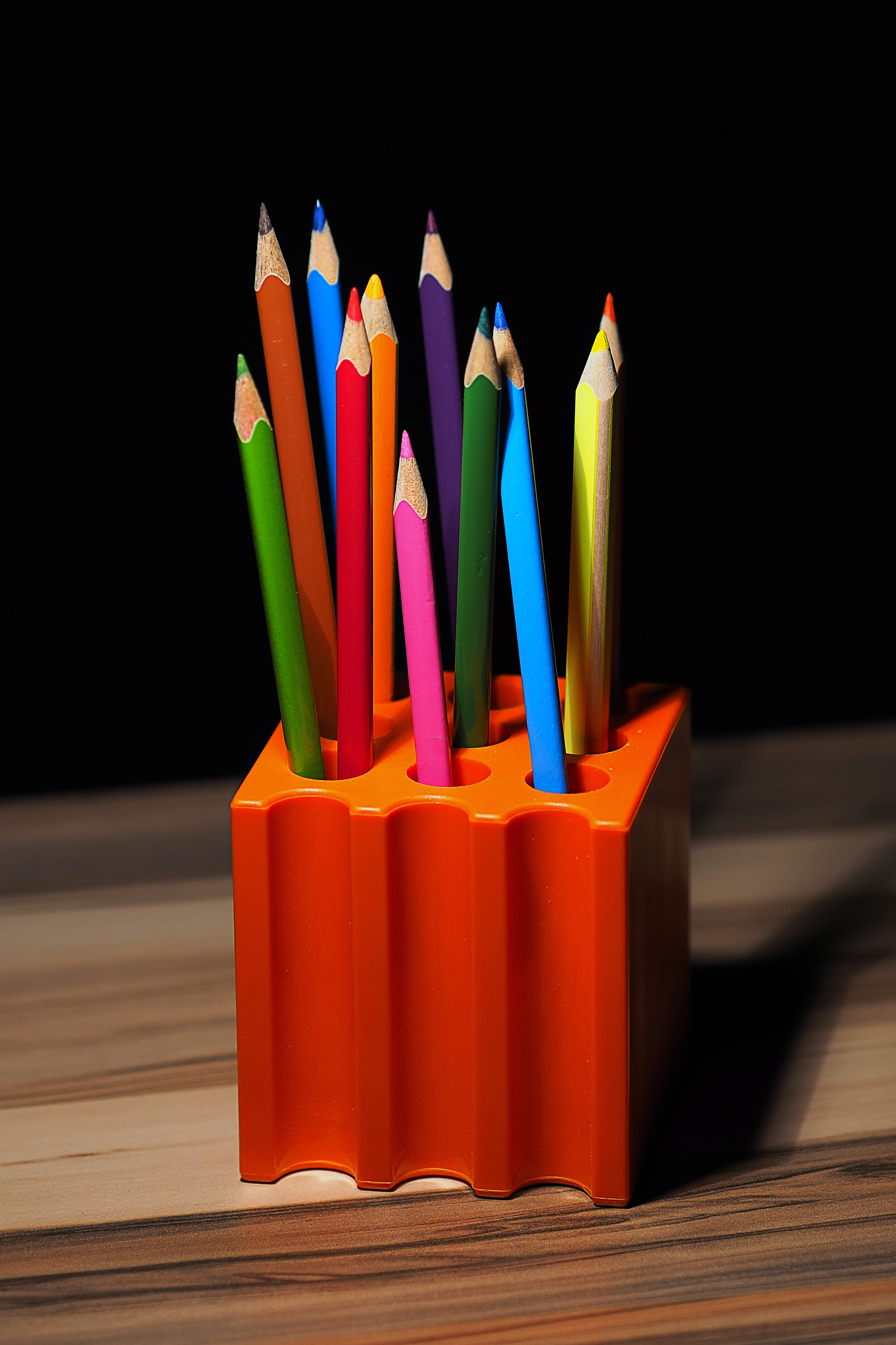 Pencil holder with colored pencils